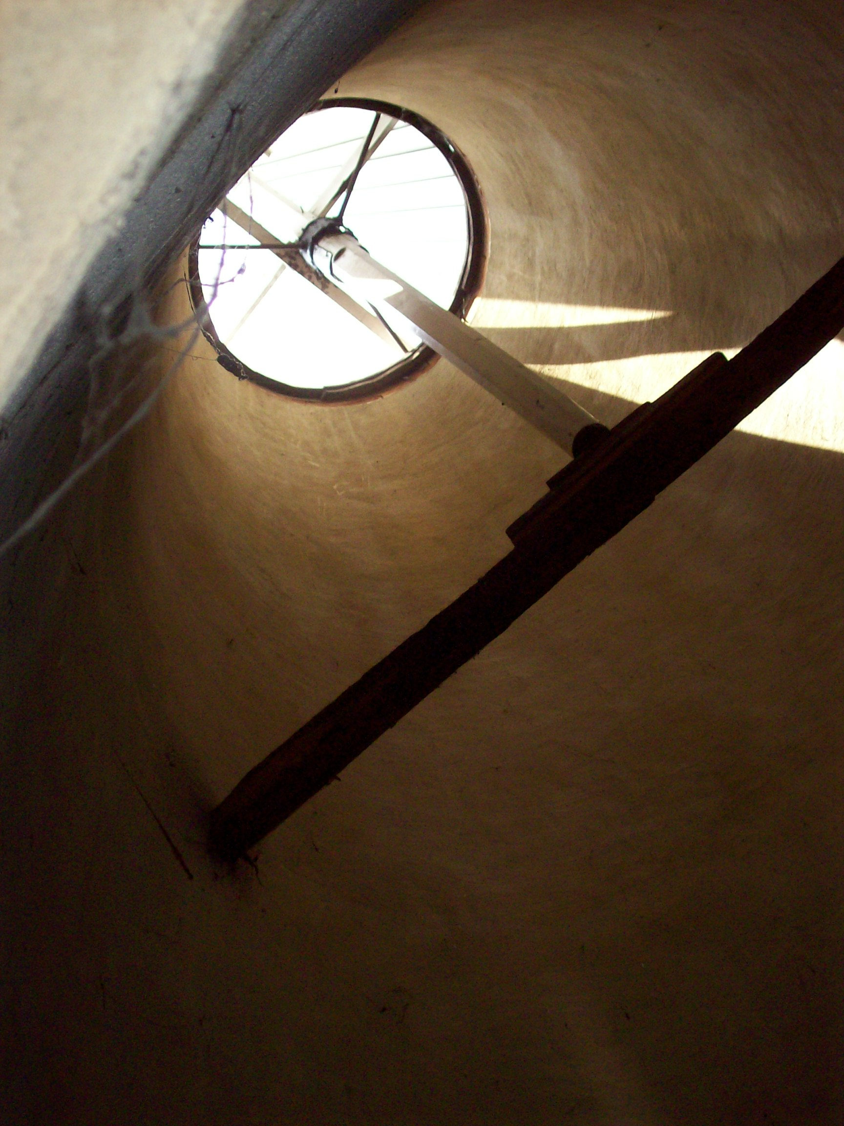 View inside the kiln of the oast at the Museum of Kent Life